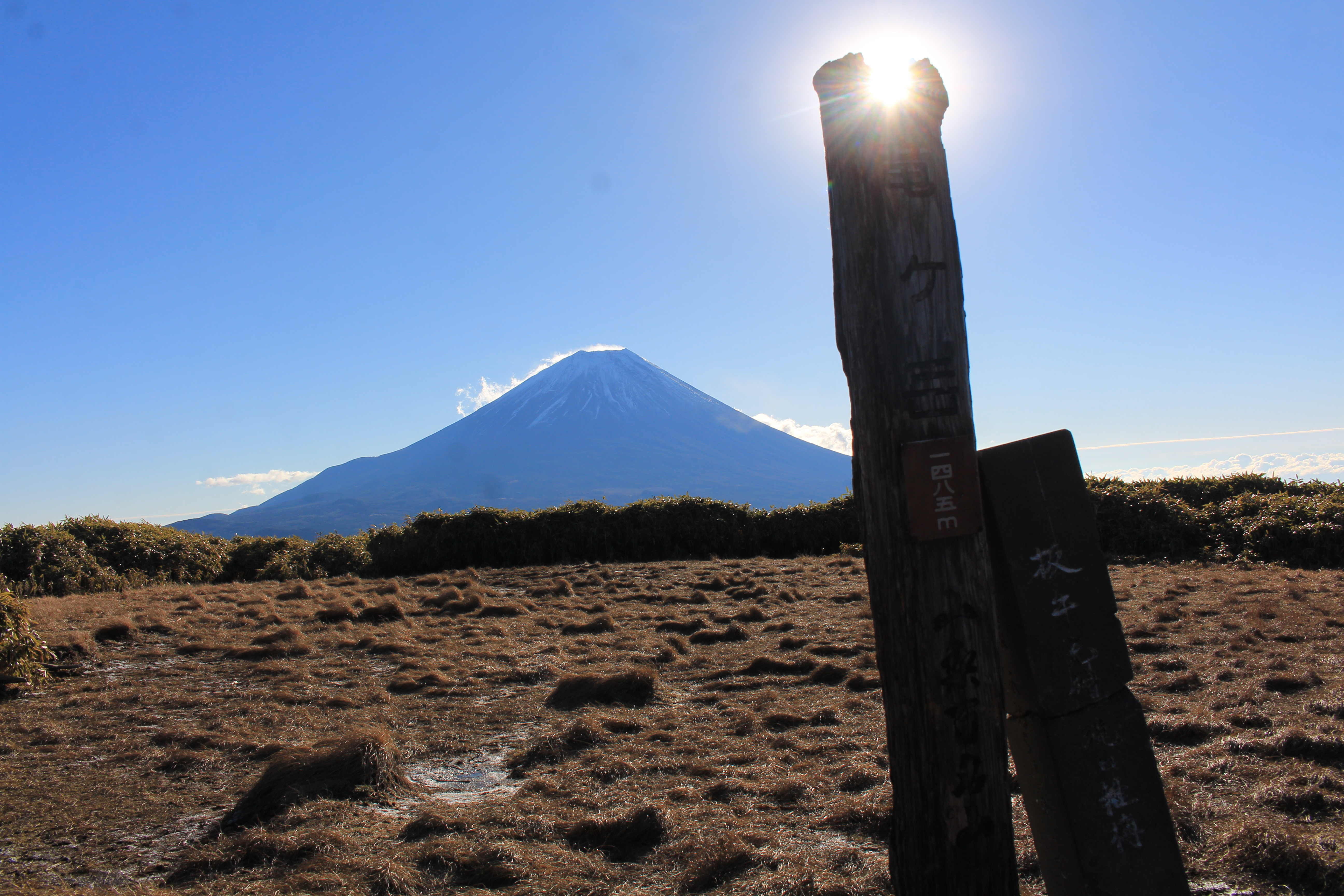 Peak of Mount Ryu of Tenshi Mountains and Mount Fuji, in Yamanashi prefecture, Japan.